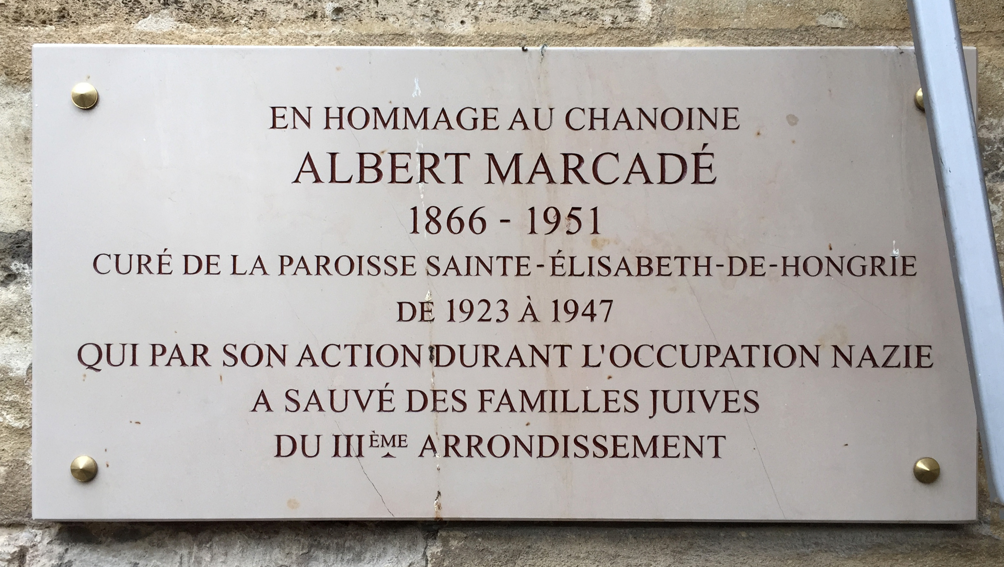 This image was uploaded as part of L'Été des villes 2015.